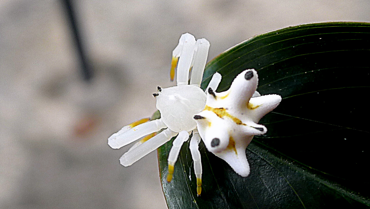 Epicadus heterogaster (Guerin, 1829)